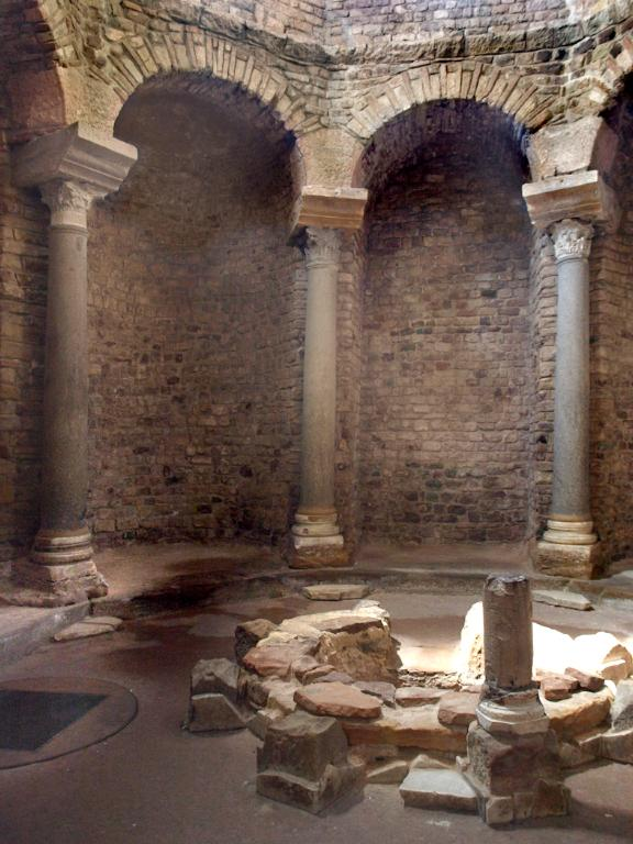 Fréjus (France), baptistery, photo 2010